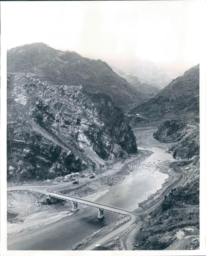 TAIWAN'S SHIHMEN IS MASSIVE DAM PROJECT.